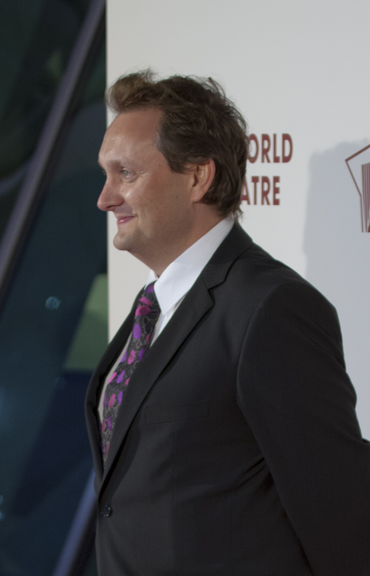 Mario Rosenstock at the opening of the Grand Canal Theatre.